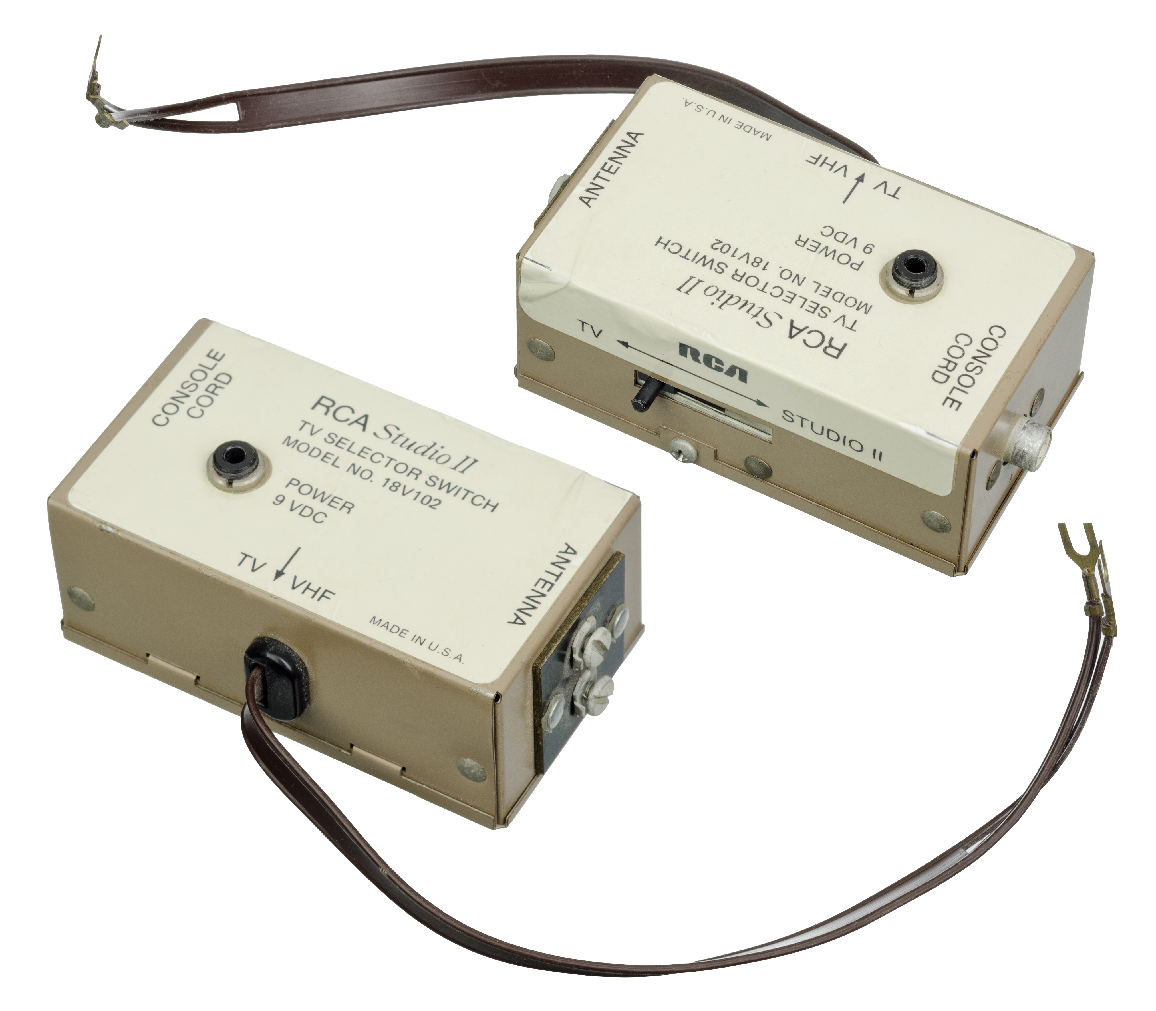 The switchbox for an RCA Studio II video game console, showing both sides. The RCA Studio II only had one wire coming out of the back, which carried a video signal and power to the unit. The wire plugged into this switchbox, which plugged into the back of a tv. A power supply plugged directly into the switchbox, sending power back to the console.